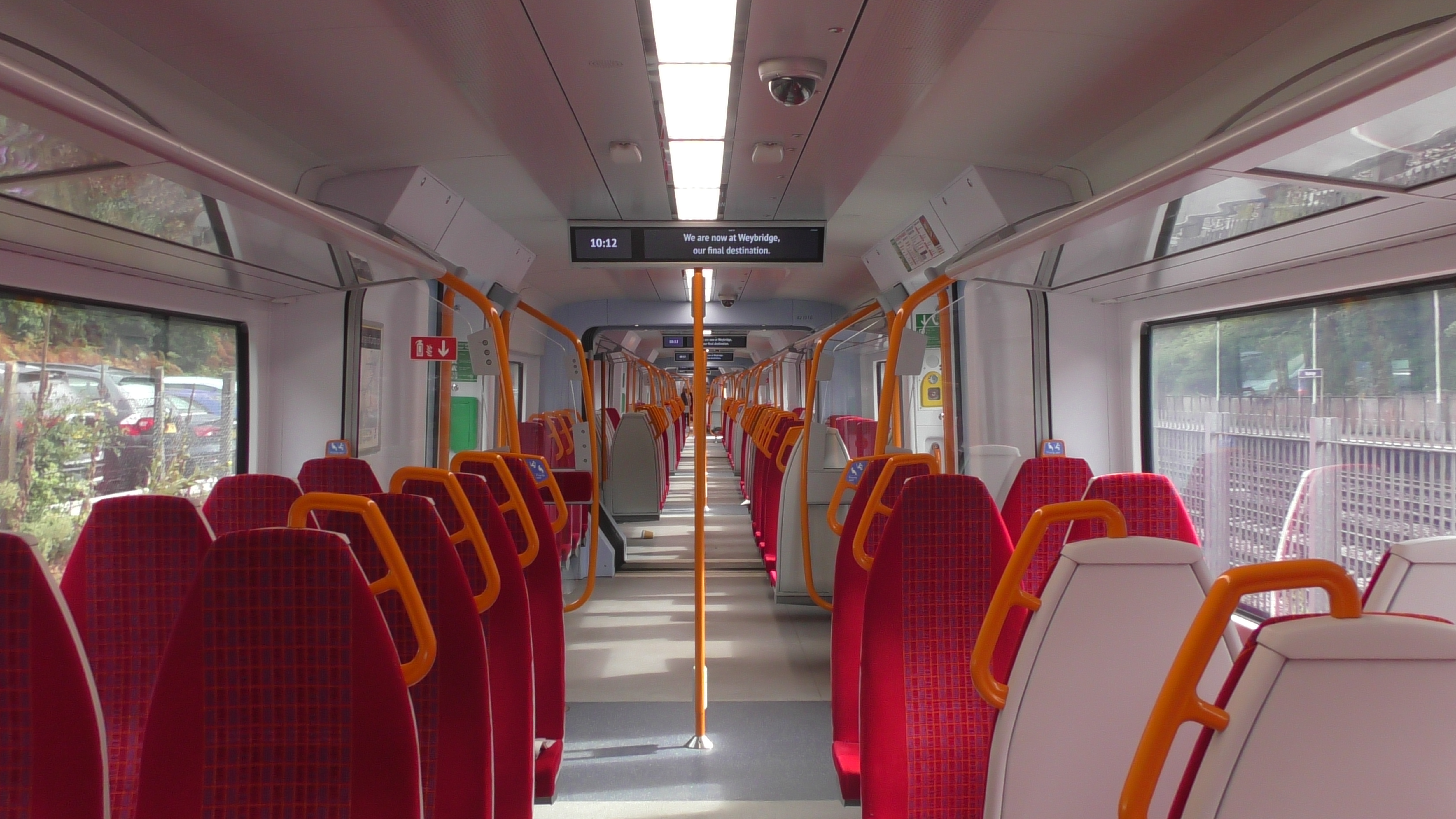 The interior of South Western Railway's 707017 at Weybridge station on 23rd August 2018, having completed its journey from London Waterloo via Hounslow and Staines. This is still in SWT's upholstery and colours, given SWR's plan to replace the Class 707 units with new build Class 701 Aventra units from December 2019.